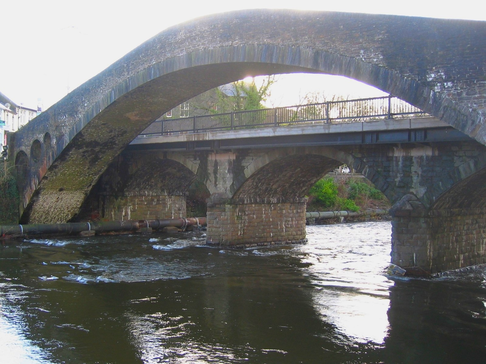 The Old Bridge, Pontypridd